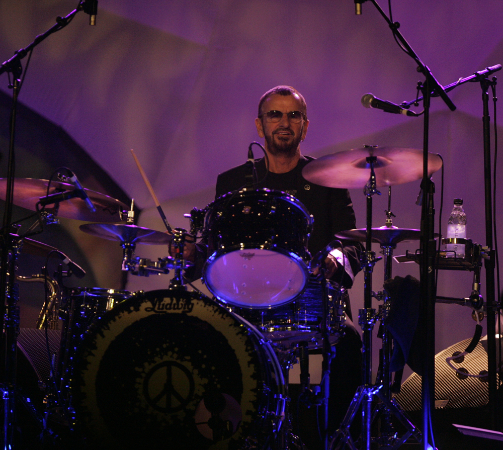 Ringo Starr and his All-Starr Band play the Hordern Pavilion in Sydney, Australia.